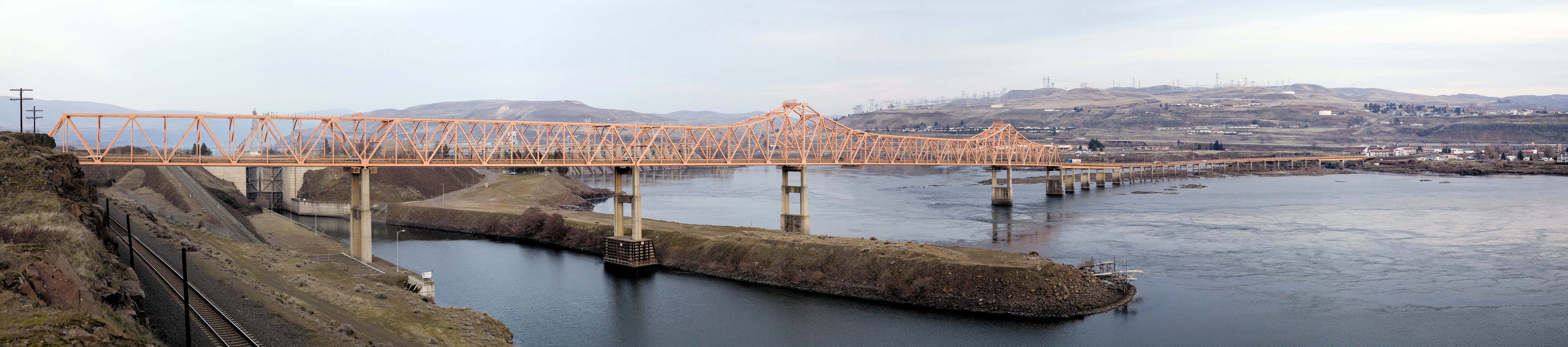 The Dalles Bridge is a steel cantilever truss bridge that spans the Columbia River between The Dalles, Oregon and Dallesport, Washington, seen from the north.